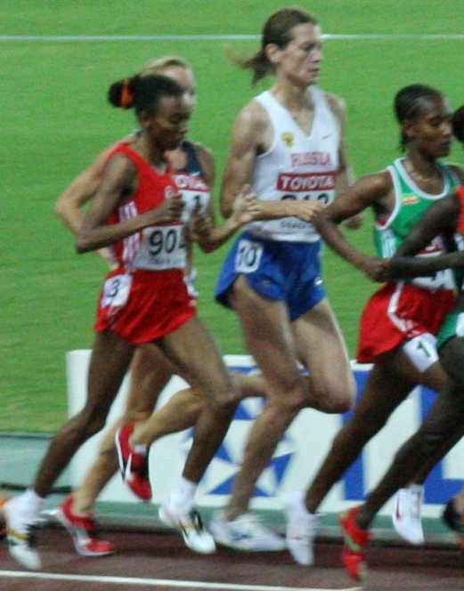 World Athletics Championships 2007 in Osaka - Scene from the women*s 5000 metres final: Elvan Abeylegesse, Mariya Konovalova, Gelete Burka